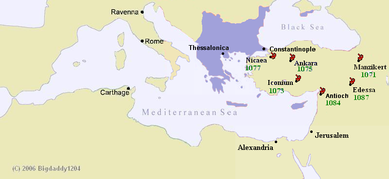 Map showing when and how the Turks took Anatolia